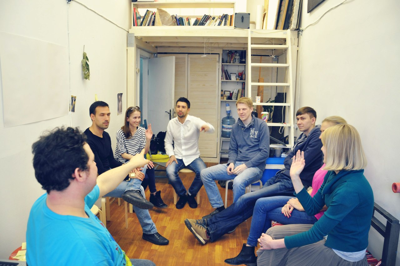 Playing Mafia, suspecting each other